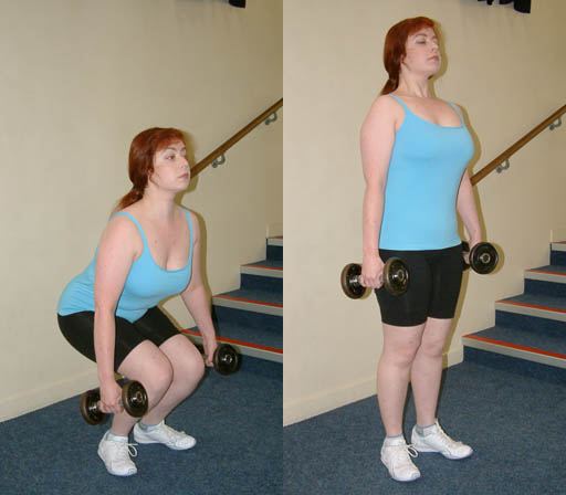 Example of a dumbbell deadlift